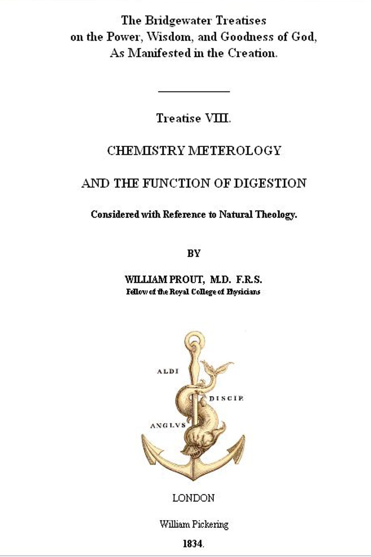 The cover of the book: Prout, William (1834). Chemistry, Meteorology, and the Function of Digestion Considered with Reference to Natural Theology (1834)